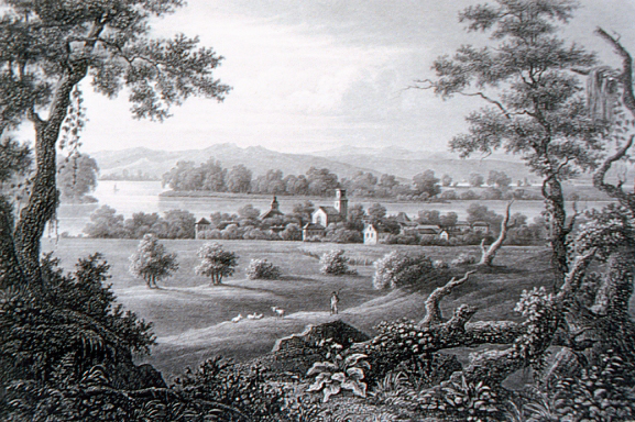 New Harmony 1832-1833. Steel engraving after Karl Bodmer.